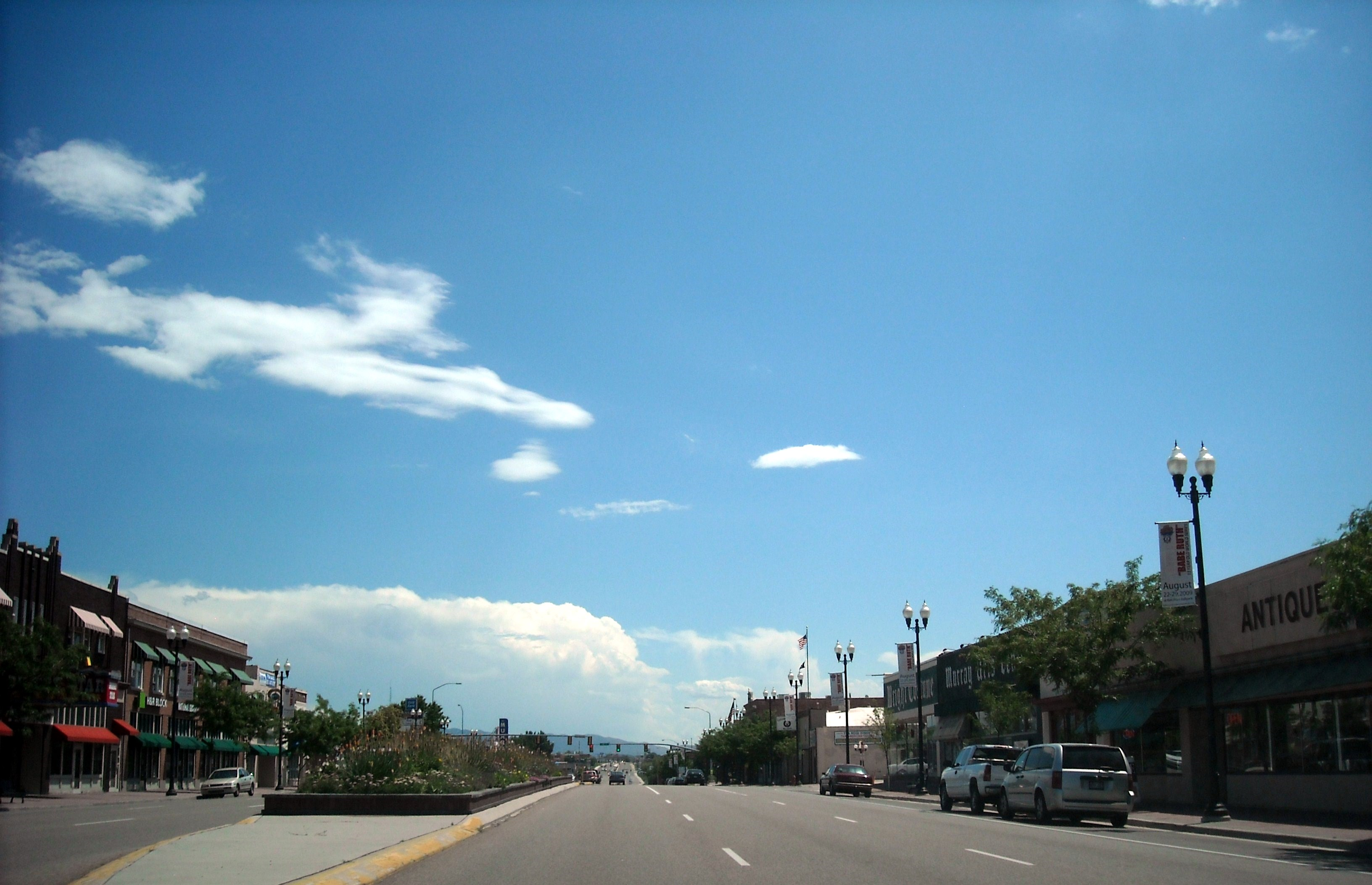 State St (US-89) southbound in Murray approaching Vine St